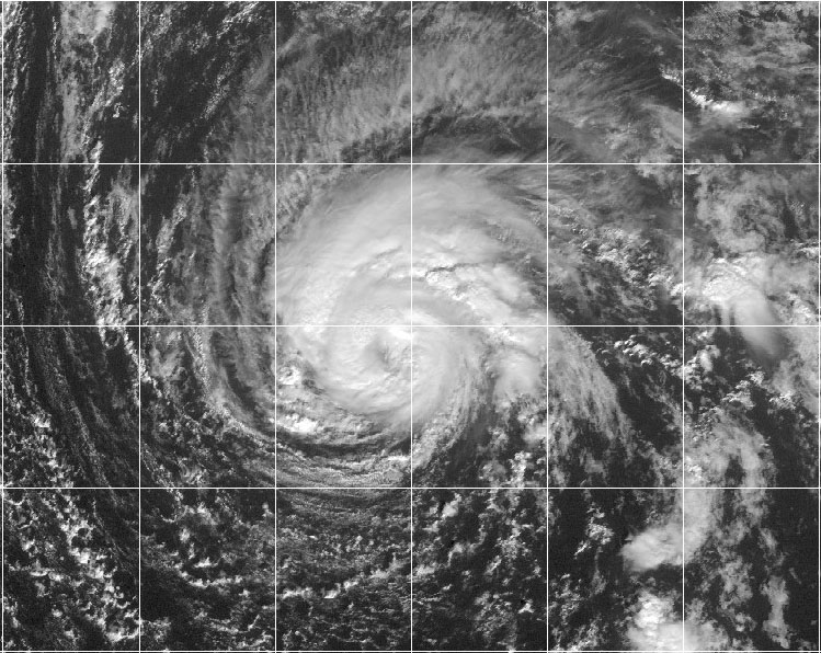 The hurricane Hurricane Epsilon (Atlantic) on December 2nd, 2005.